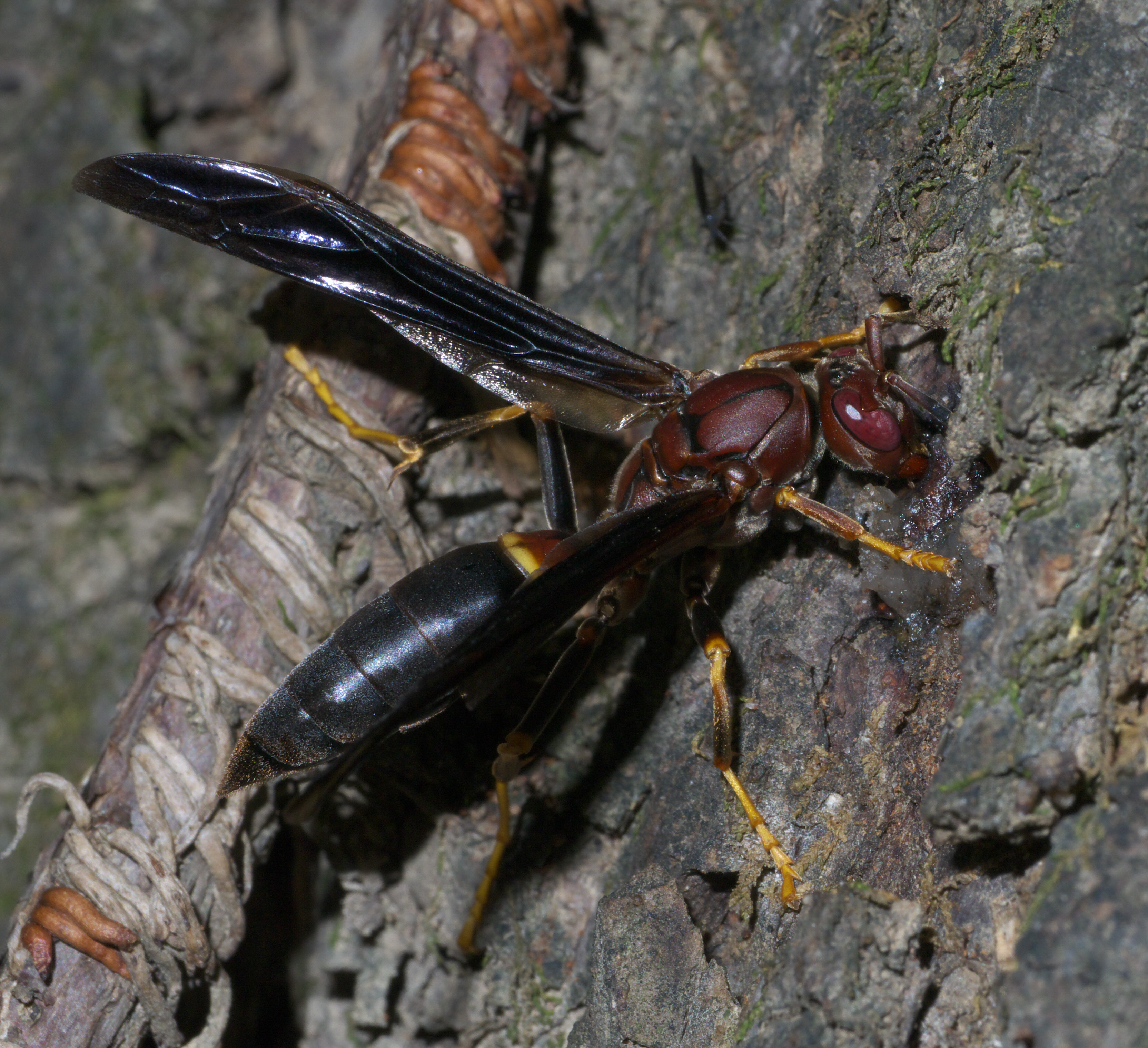 Polistes annularis, jack Spaniard wasp, ID Confidence: 87